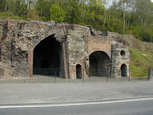 Bedlam Furnaces Ironbridge When building the iron bridge each part was individually cast to fit at the Bedlam furnace less than 500 yards from the bridge